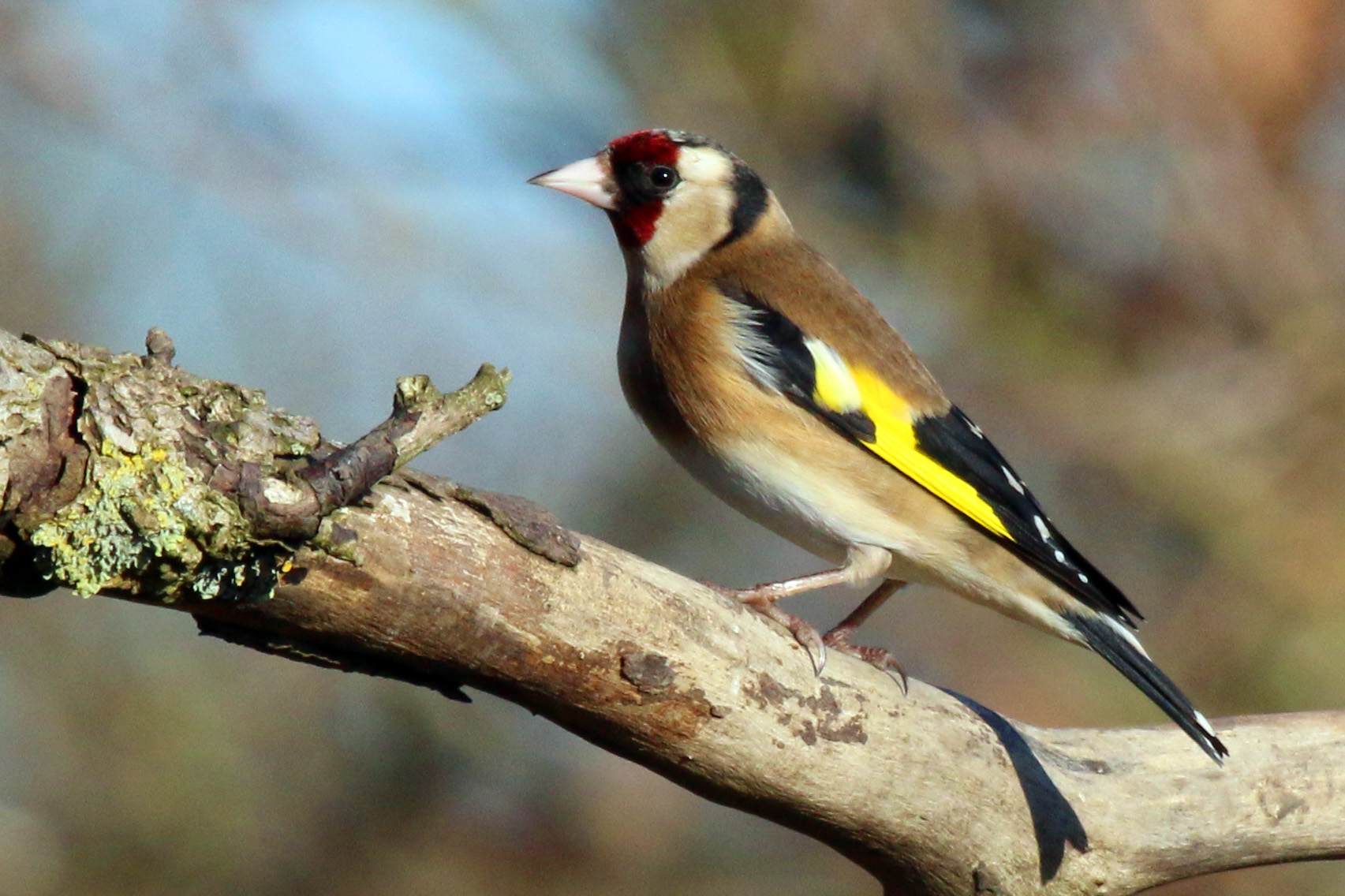 Goldfinch (Carduelis carduelis) at Otmoor RSPB reserve, Oxfordshire